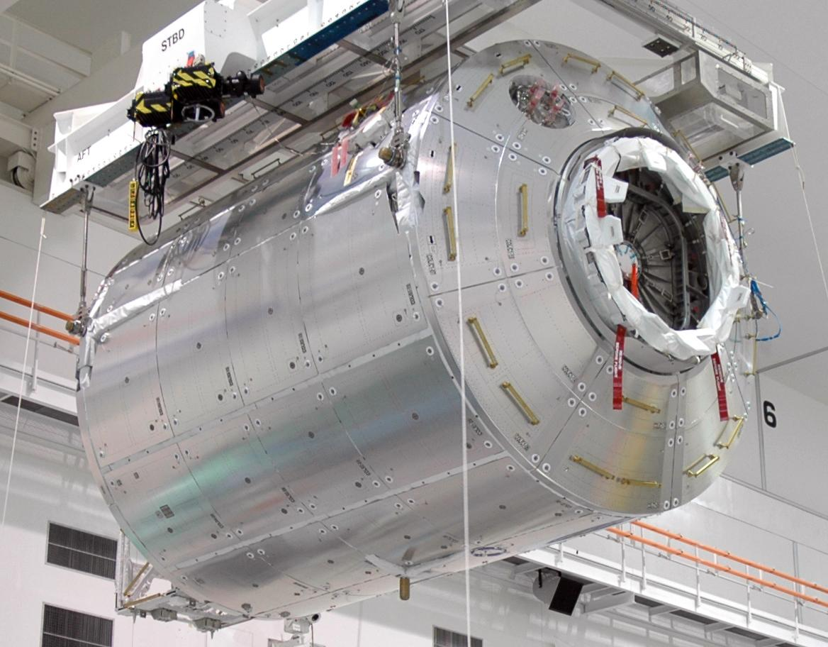 KENNEDY SPACE CENTER, FLA. – Inside the Space Station Processing Facility at NASA's Kennedy Space Center, an overhead crane lowers the Columbus module toward a work stand. Columbus is the European Space Agency's research laboratory for the International Space Station. The module will be prepared for delivery to the space station on a future space shuttle mission. Columbus will expand the research facilities of the station and provide researchers with the ability to conduct numerous experiments in the area of life, physical and materials sciences.